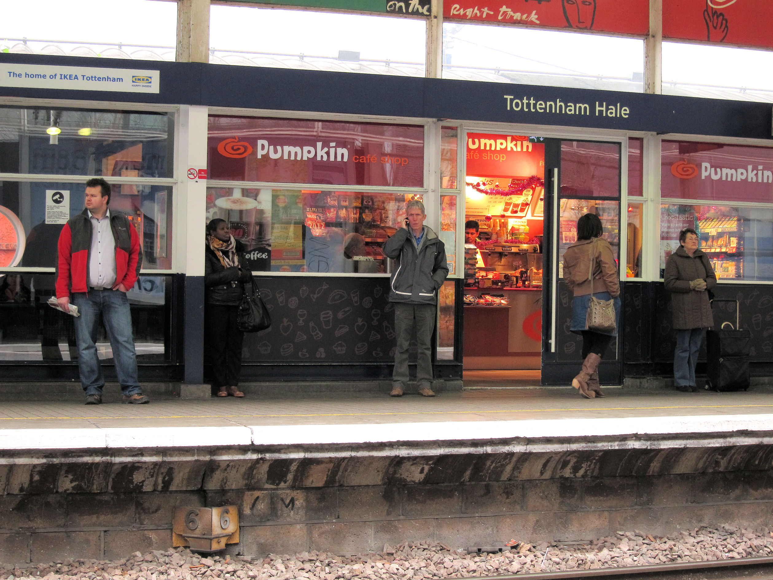 28 December 2011. Platform 2 Tottenham Hale Station. The windows used to show a list of destinations: Barcelona, Bologna, Edinburgh, Frankfurt, Prague, Palma, Roma and Reykjavík. As can see, in 2011 we were more simply: The home of IKEA Tottenham ________________________________ See where I took this photo.